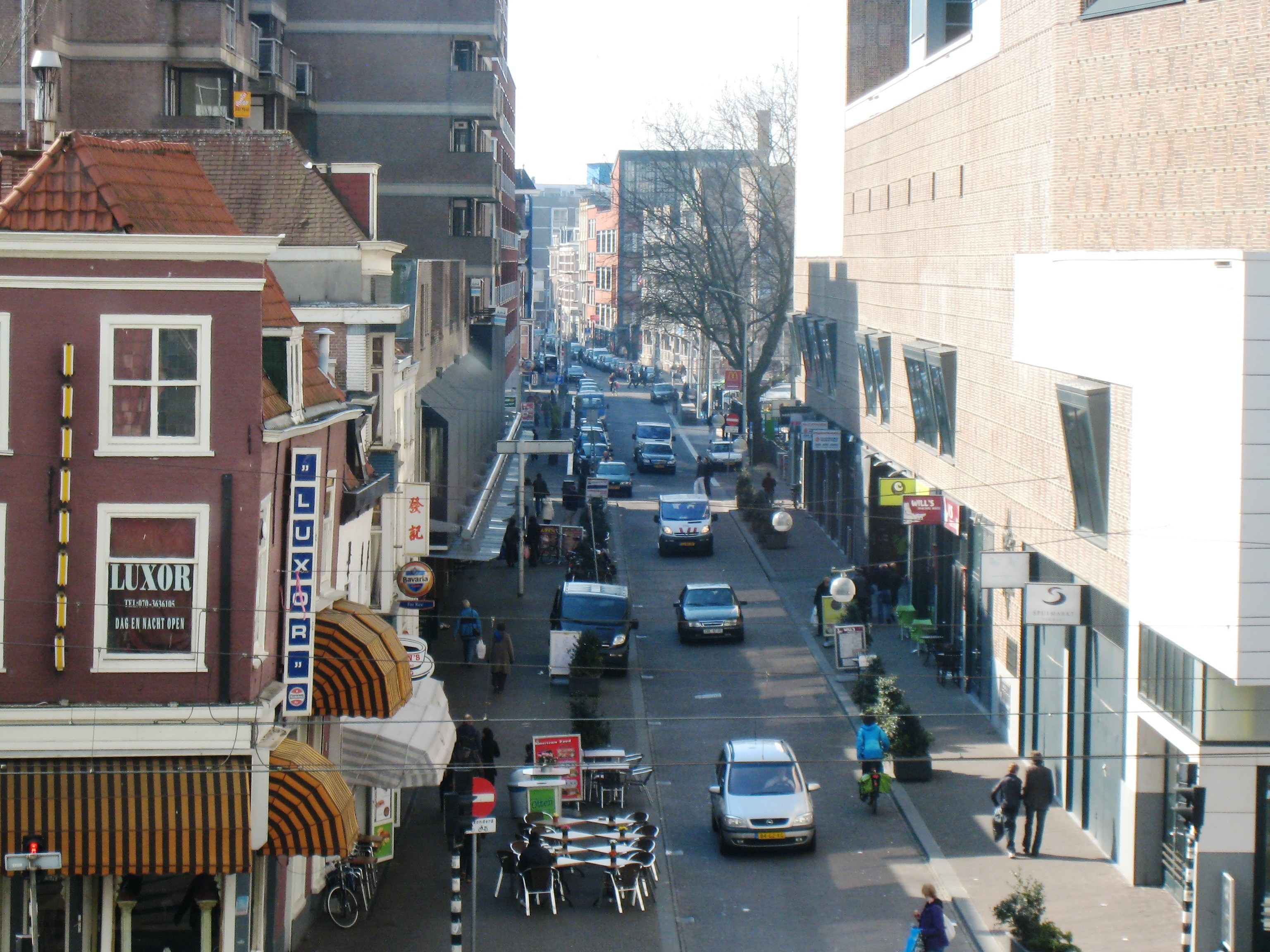 Gedempte Gracht and Gedempte Burgwal in The Hage seen from Centrale Bibliotheek Den Haag, second floor